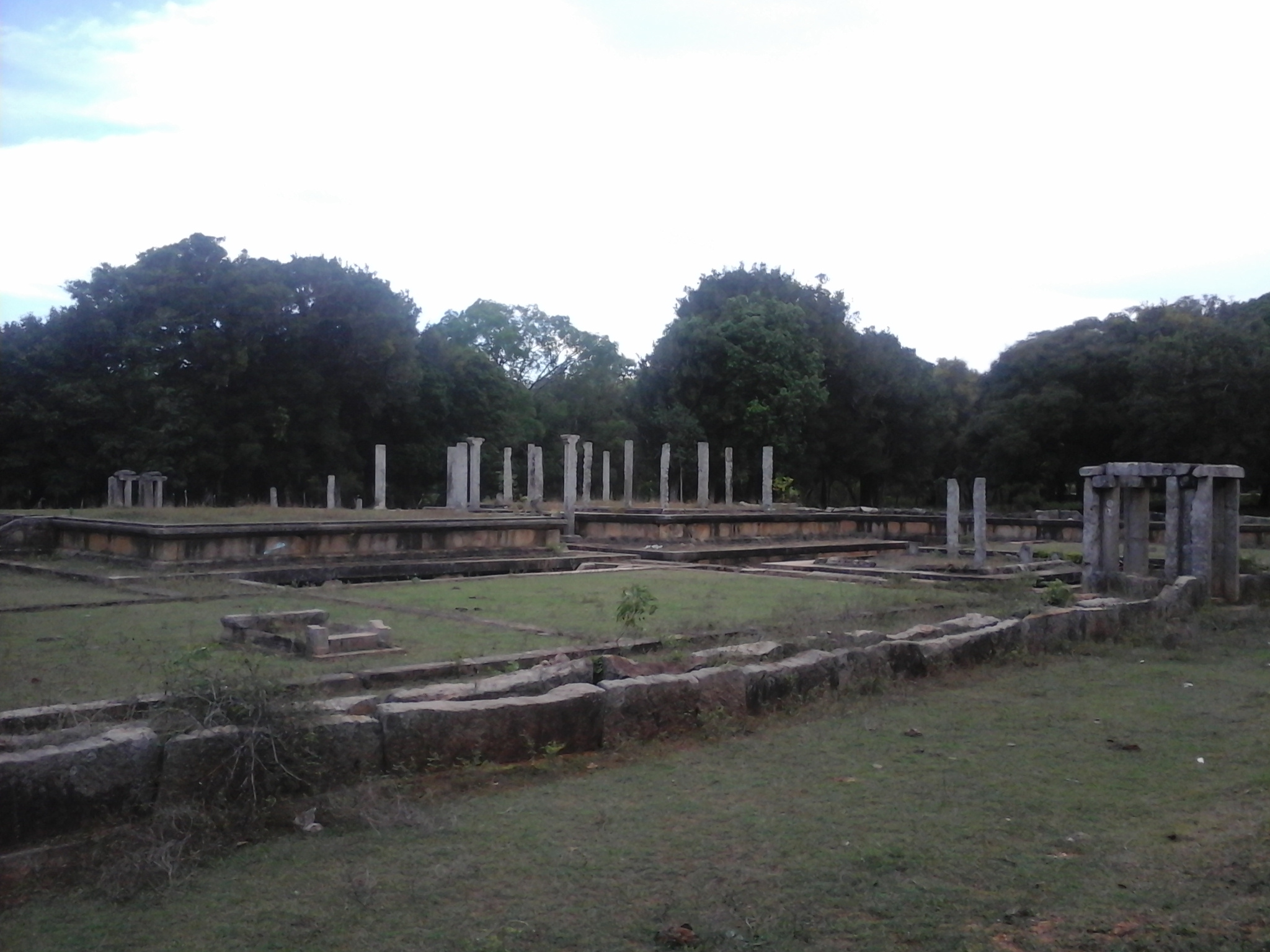 Batahiraramaya ruins - Anuradhapura